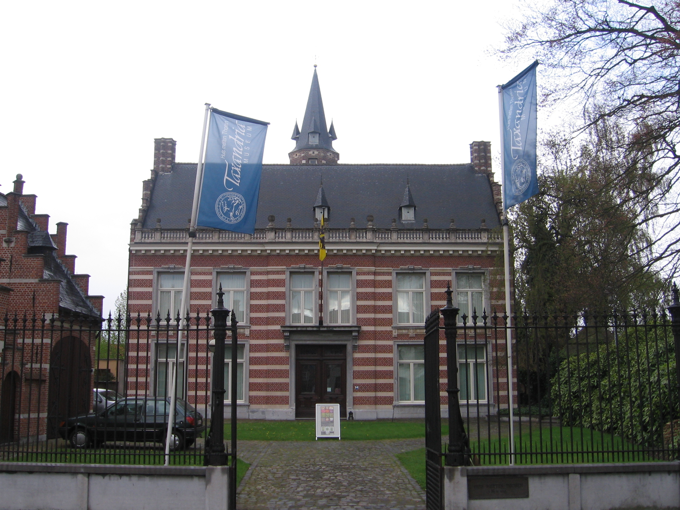 Turnhout, 29 april 2006